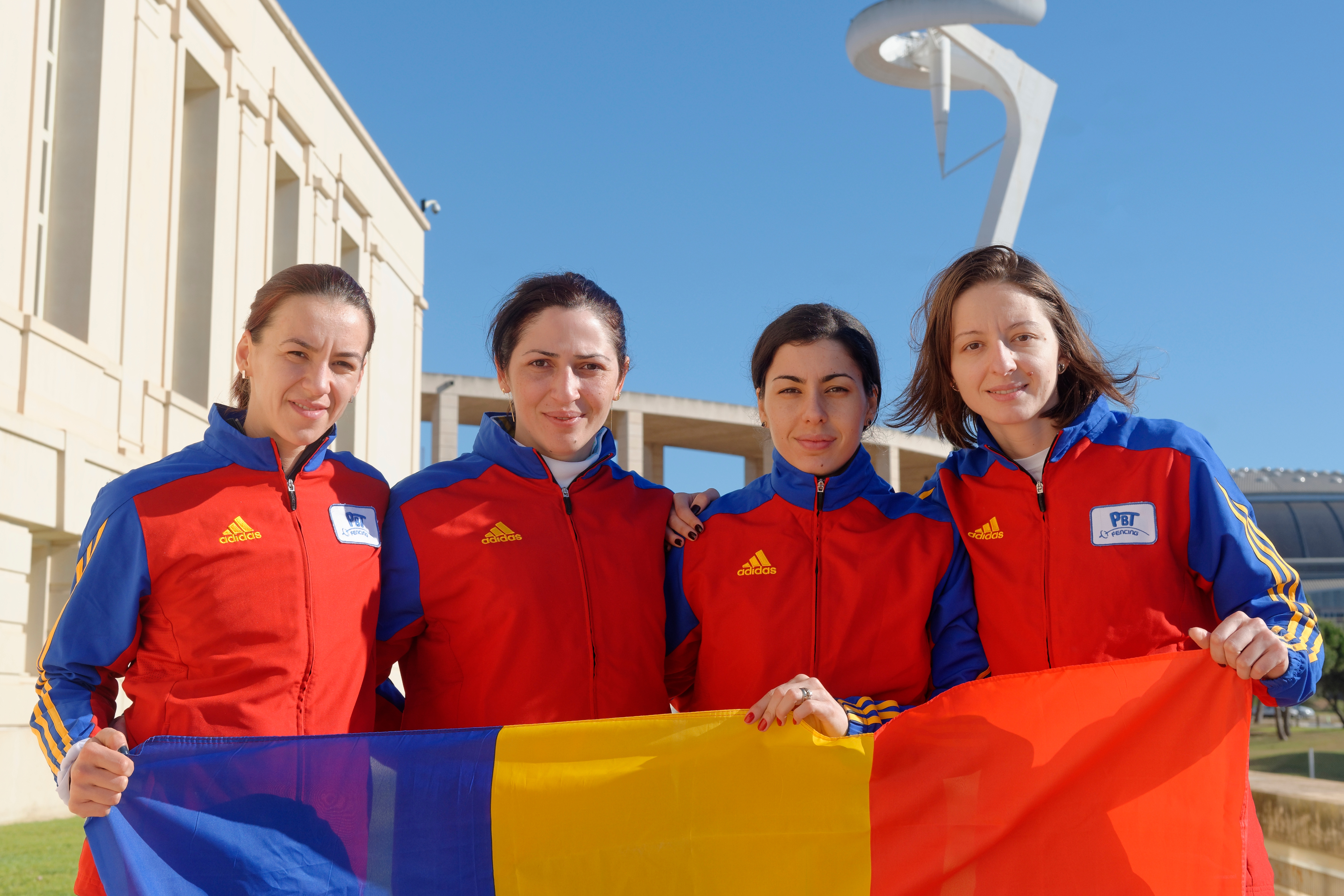 The “Power Praf” girls (from left to right, Simona Gherman, Anca Măroiu, Loredana Dinu and Ana Maria Brânză) at the 2015 Trofeu International Ciutat de Barcelona, a women's épée World Cup competition.